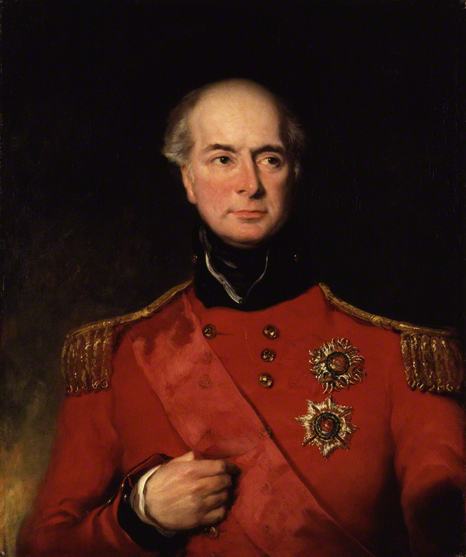 Sir Herbert Taylor painted in c. 1833 by John Simpson.